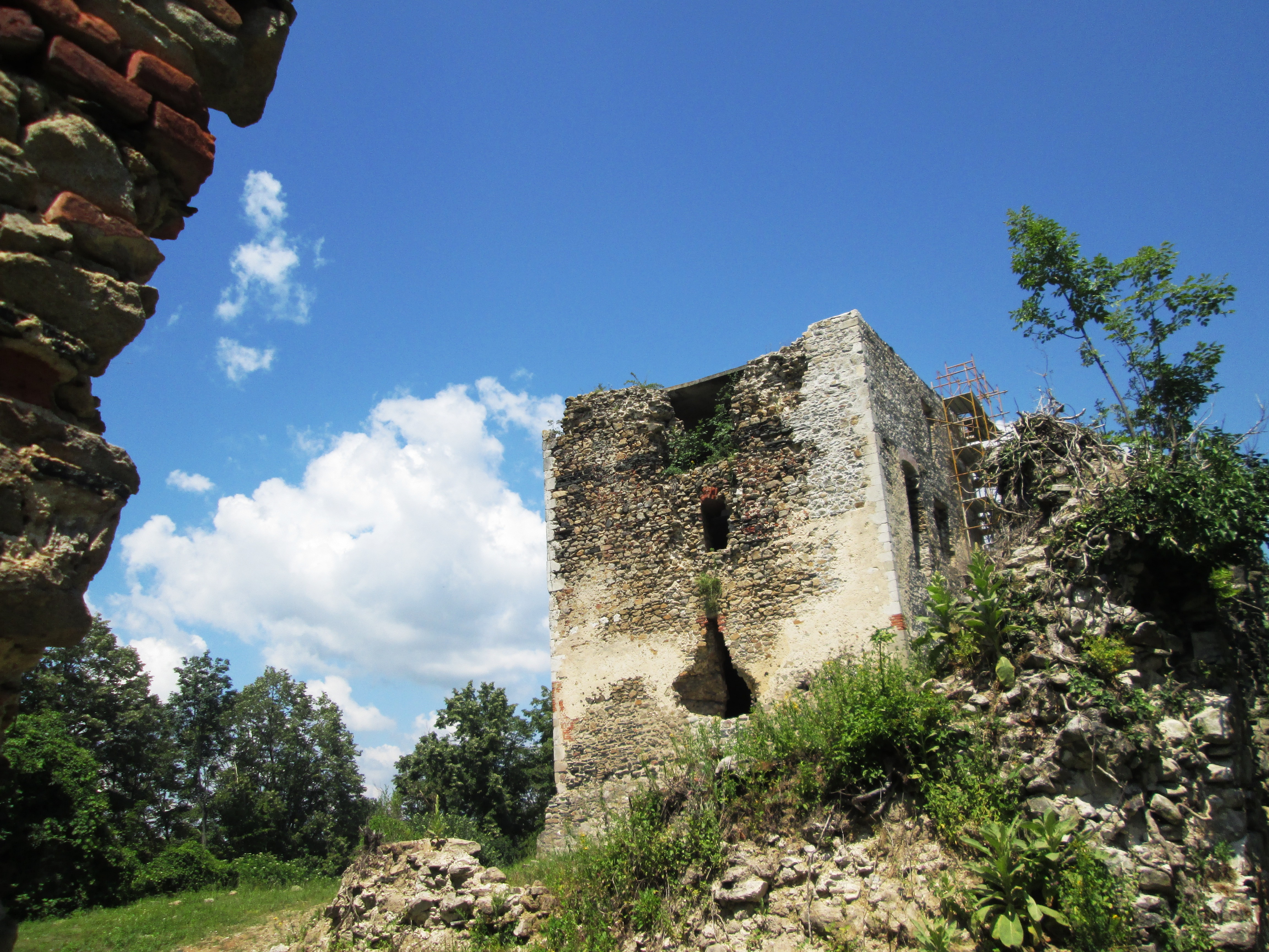 Moslavacka Gora Regional Park - Old Town Garic